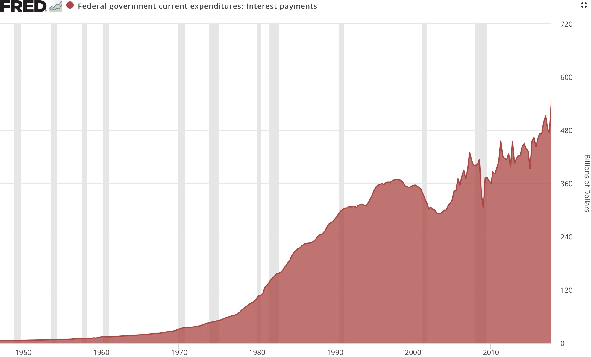 Federal interest payments